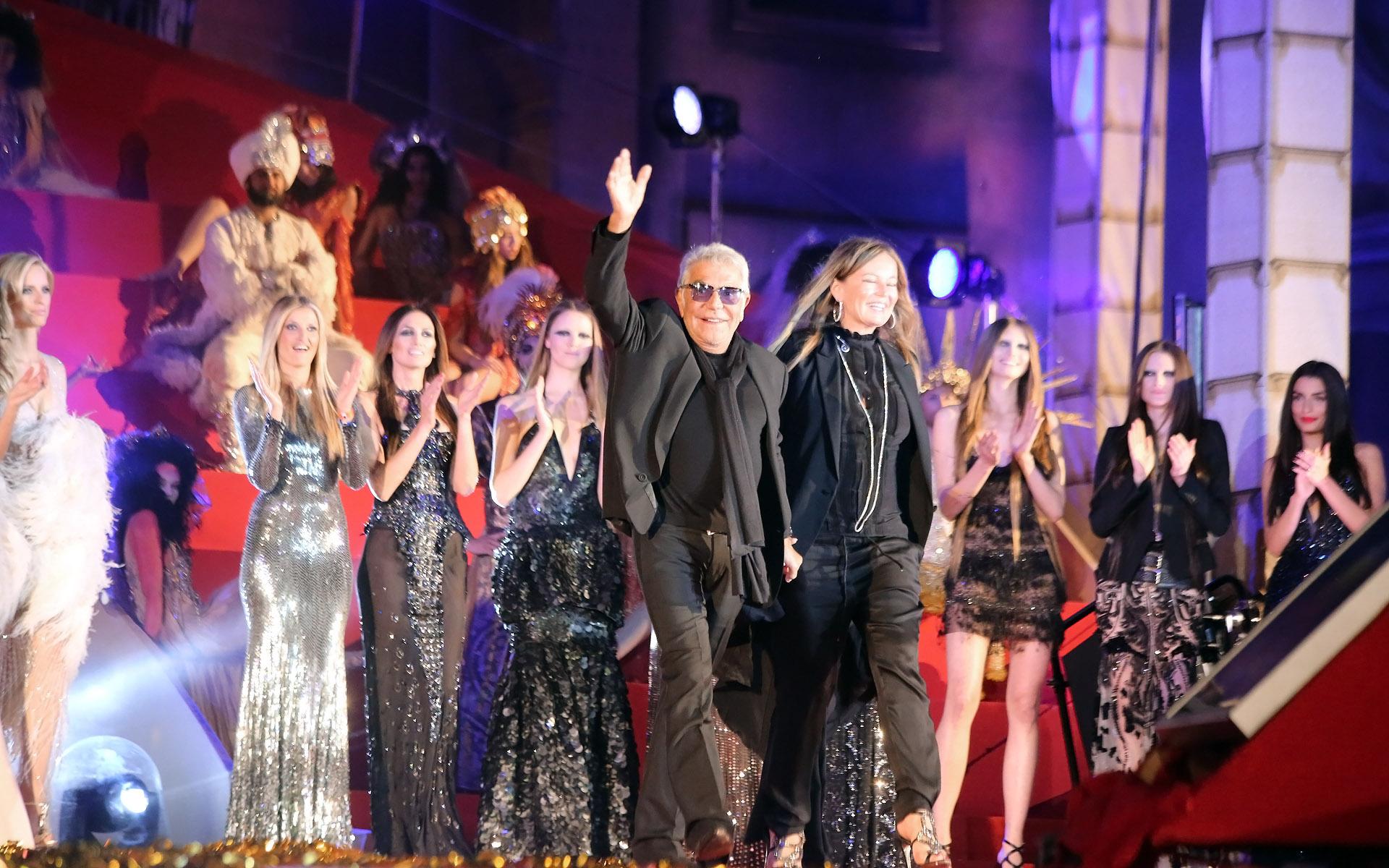 Fashion show by Roberto Cavalli, opening of Life Ball 2013 at the city hall of Vienna, Vienna, Austria.